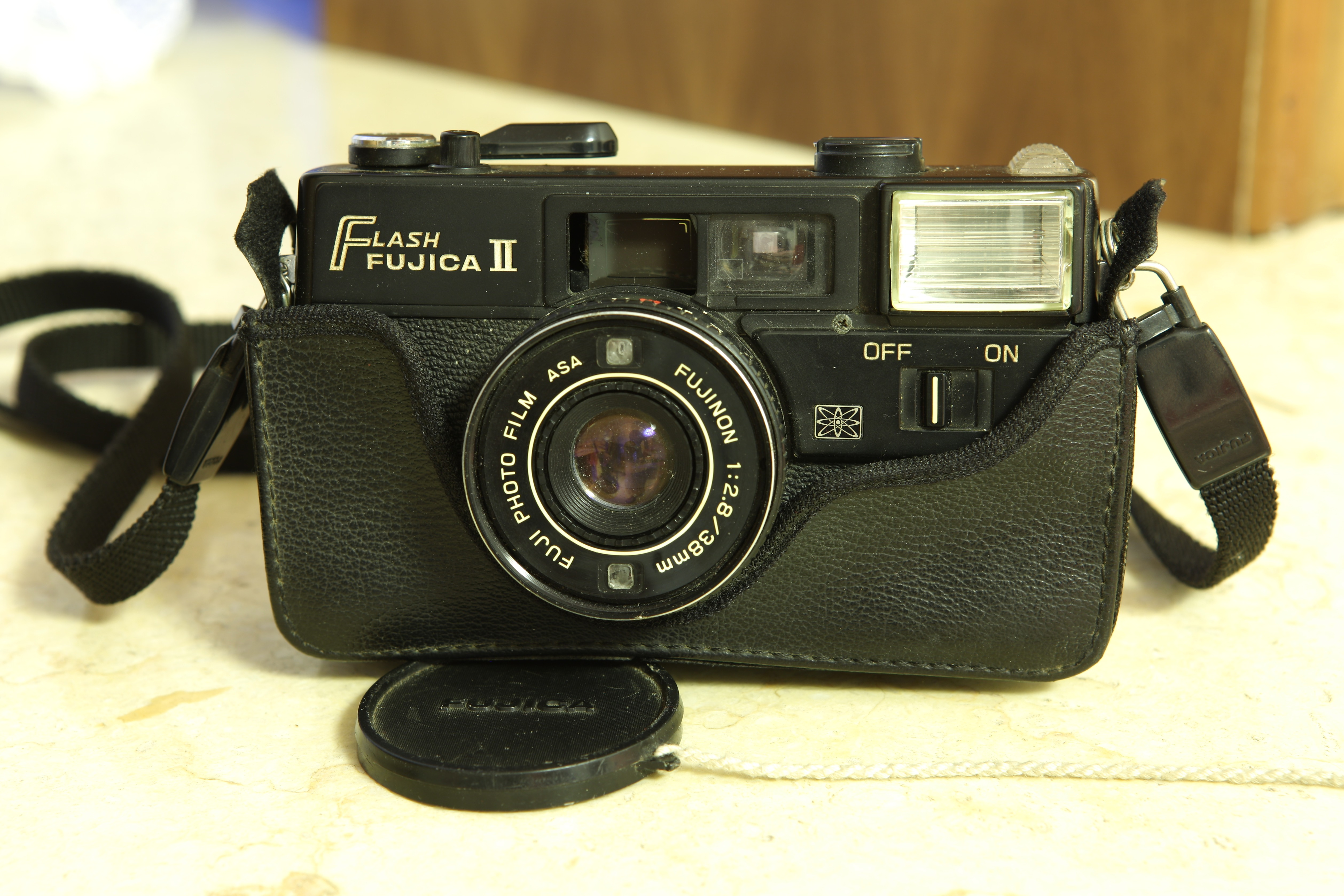 An old Flash Fujica II camera with a FUJINON 38mm/F2.8 lens (not exchangeable).